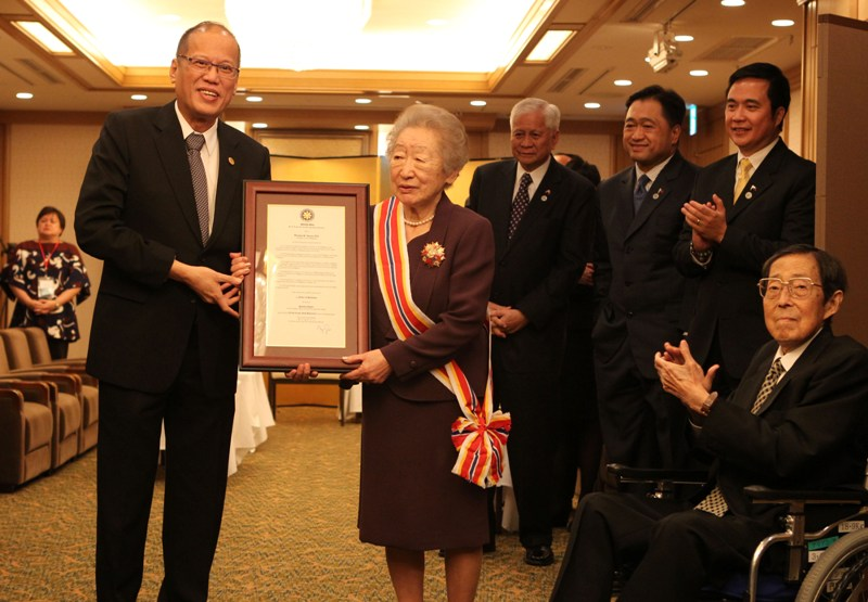 Benigno Aquino III, President, conferred Order of Sikatuna with a rank of Datu, Katangiang Ginto on Sadako Ogata, Special Advisor to the President of the Japan International Cooperation Agency, at the Imperial Hotel, Tokyo in Chiyoda Ward, Tōkyō Metropolis on December 14, 2013. Shijūrō Ogata, Sadako's husband, clapped his hands.